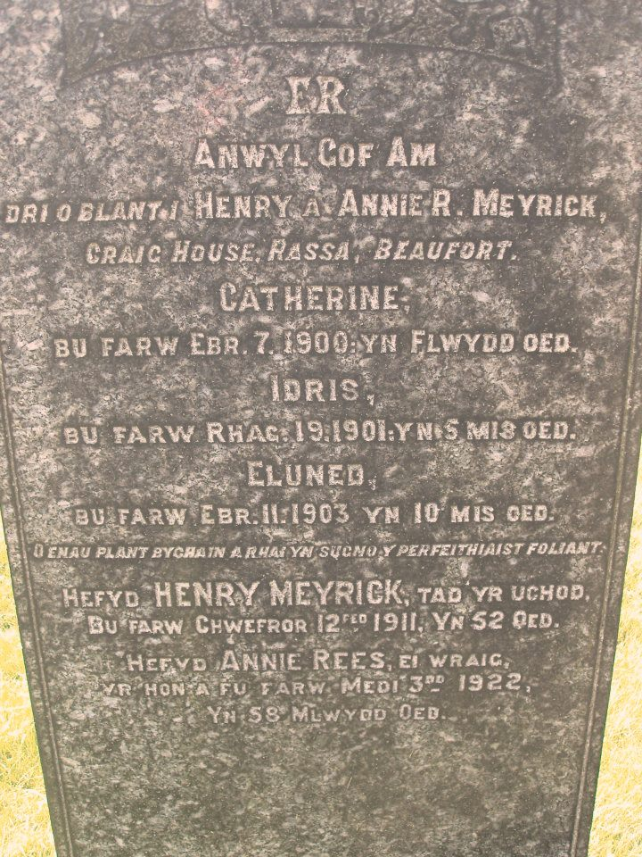 This gravestone shows the Welsh language was still spoken at Rassau, Ebbw Vale during the first half of the 20th centuary. The picture was taken at Dukestown Cemetary, Dukestown, Tredegar in 2011.